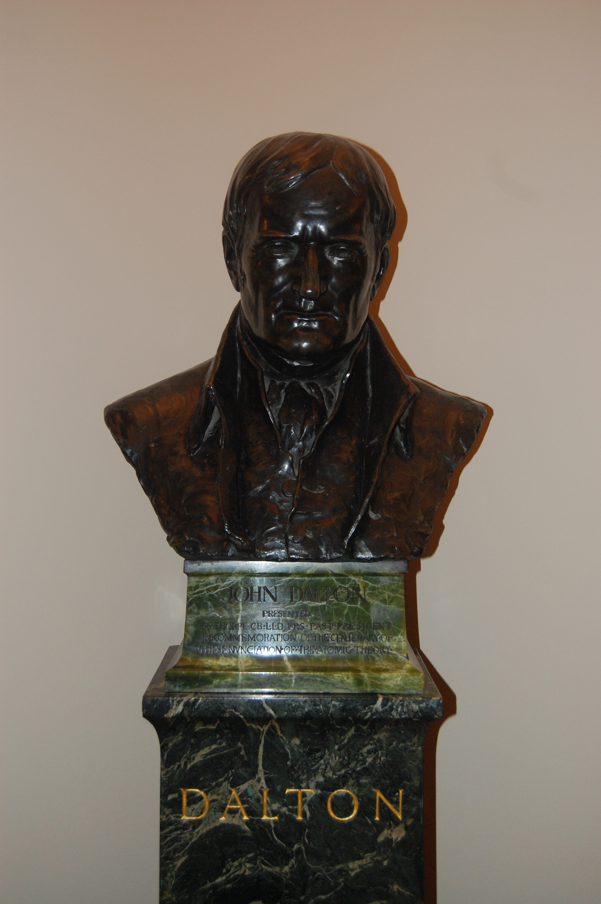 Royal Society of Chemistry headquarters, Burlington House , London, England.